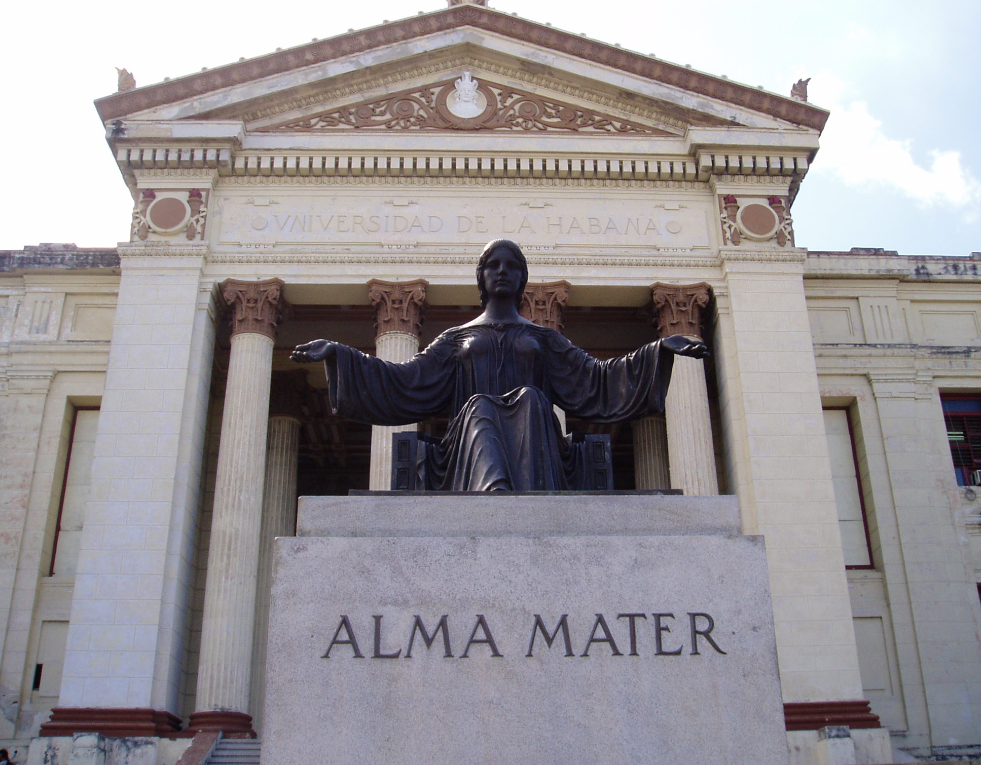 Universidad de La Habana, University of Havana, fachada